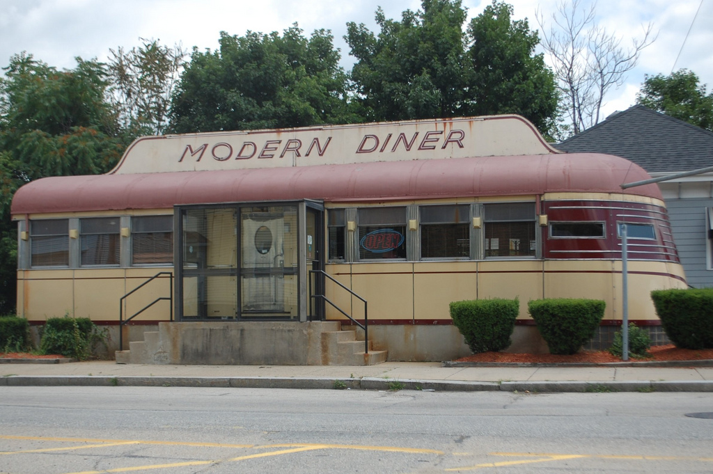 Modern Diner, East St Pawtucket RI